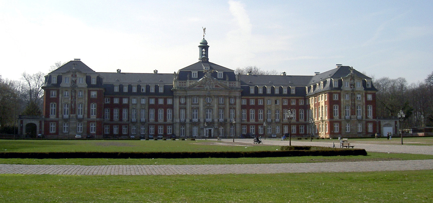 Castle of Münster